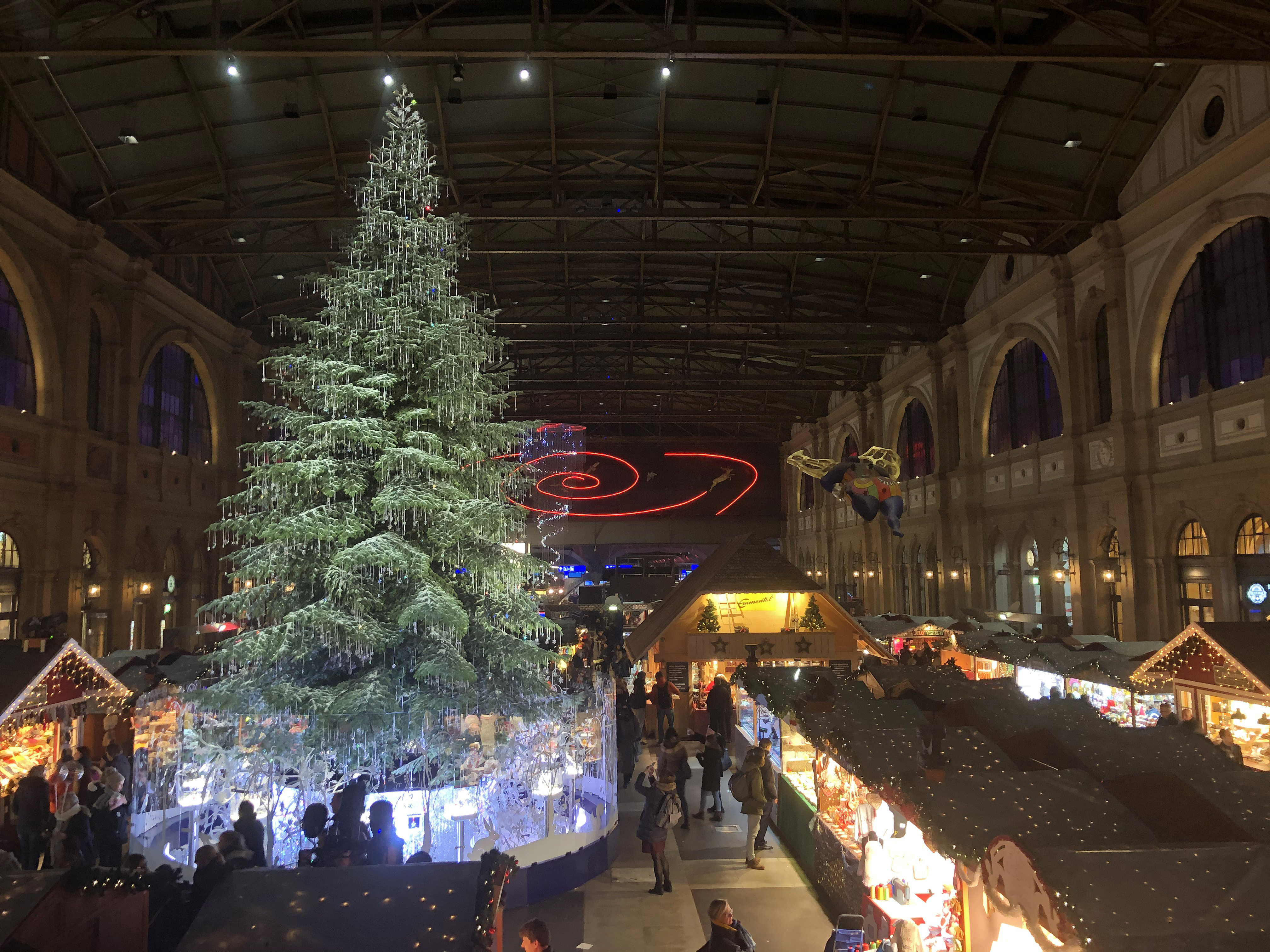 Christmas market at Zurich main train station